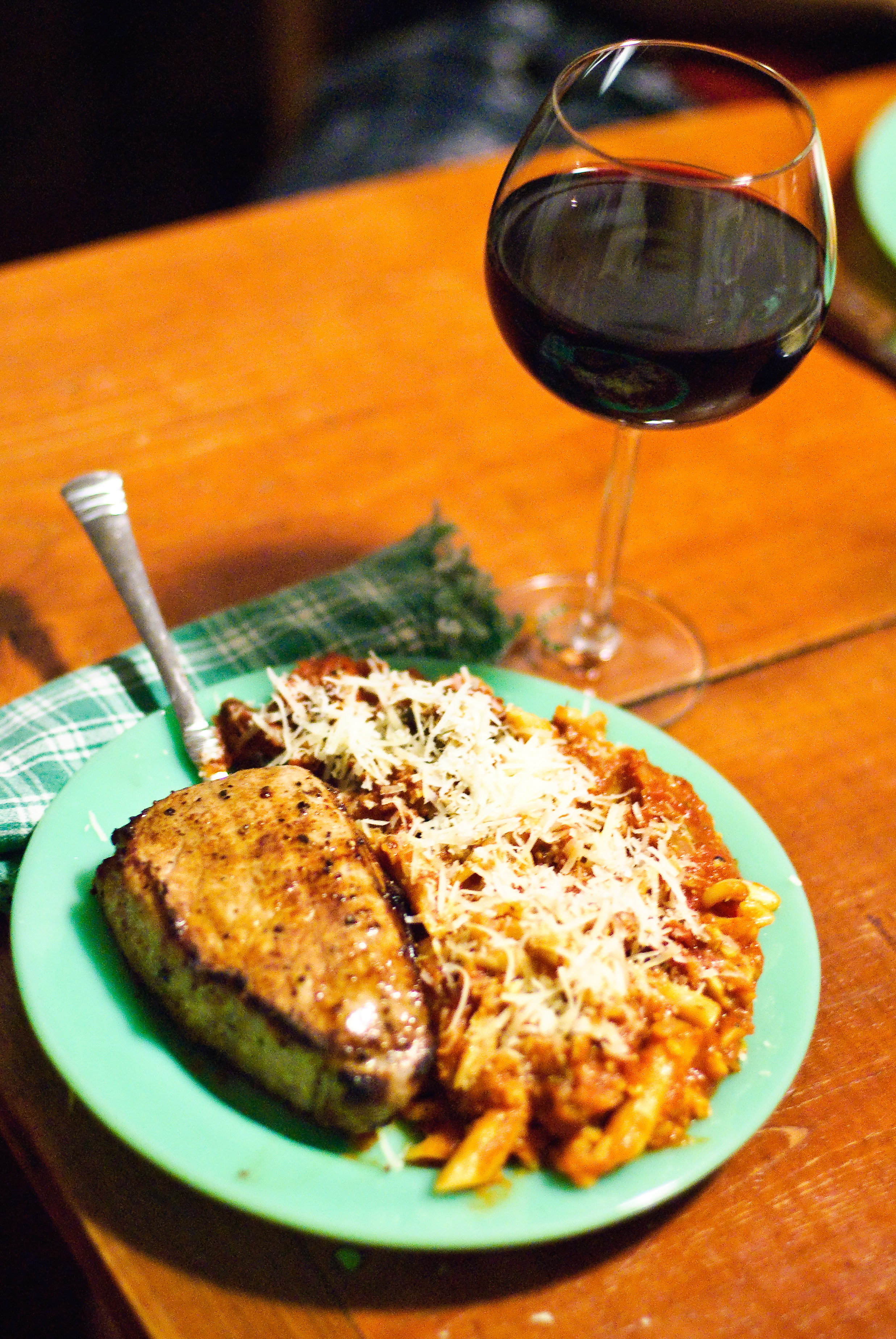 A food and wine pairing with the Italian wine Amarone from Valpolicella, Veneto.